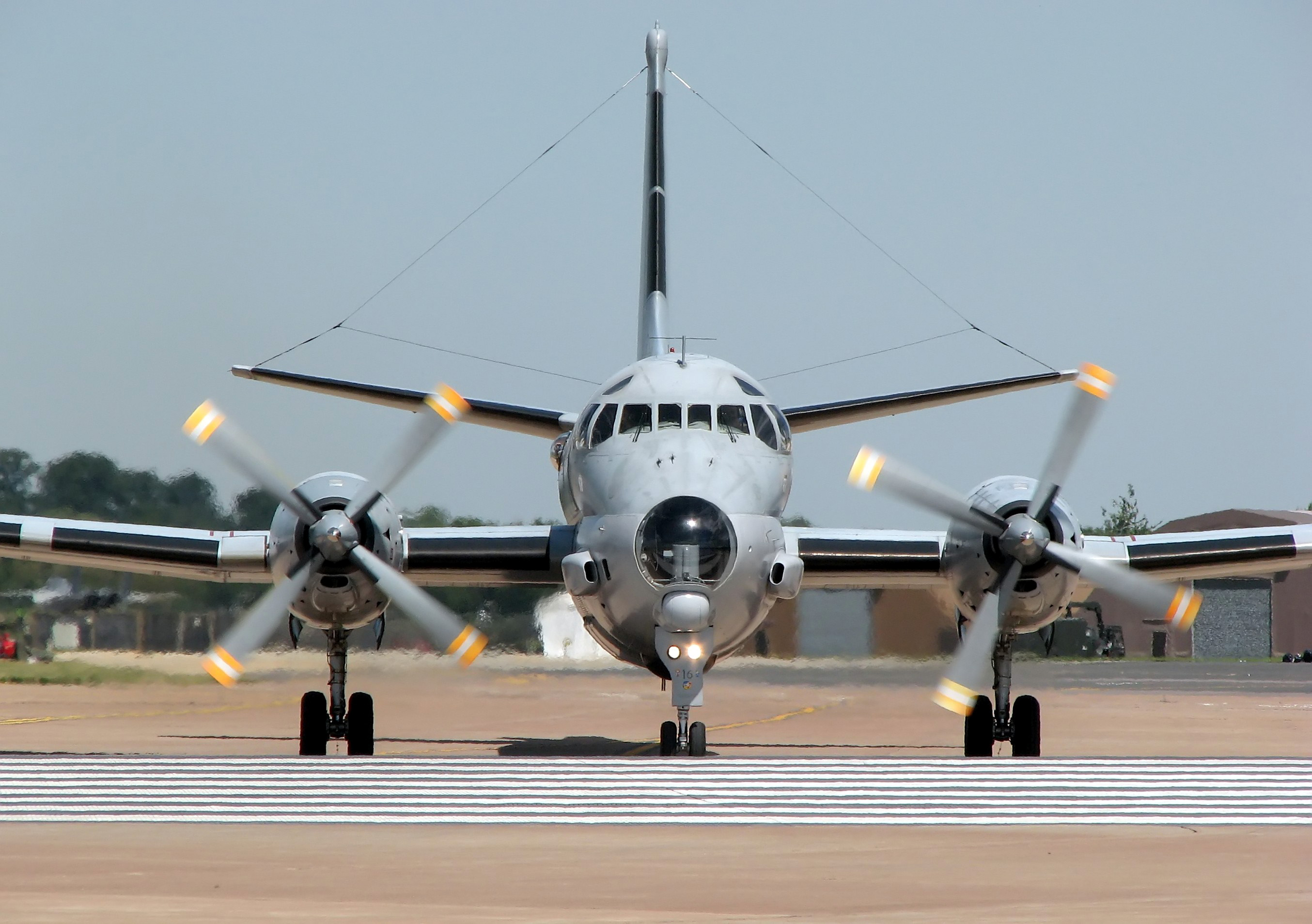 Breguet Atlantic Br.1150 (code 16) of the French Navy at the Royal International Air Tattoo, RAF Fairford, Gloucestershire, England.